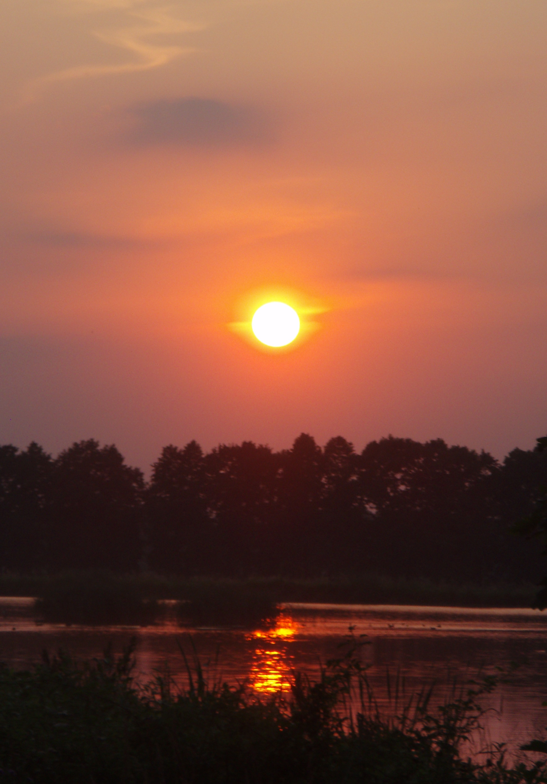 Sunstet in Brzeszcze, Poland, at the lakes of Nazielence.